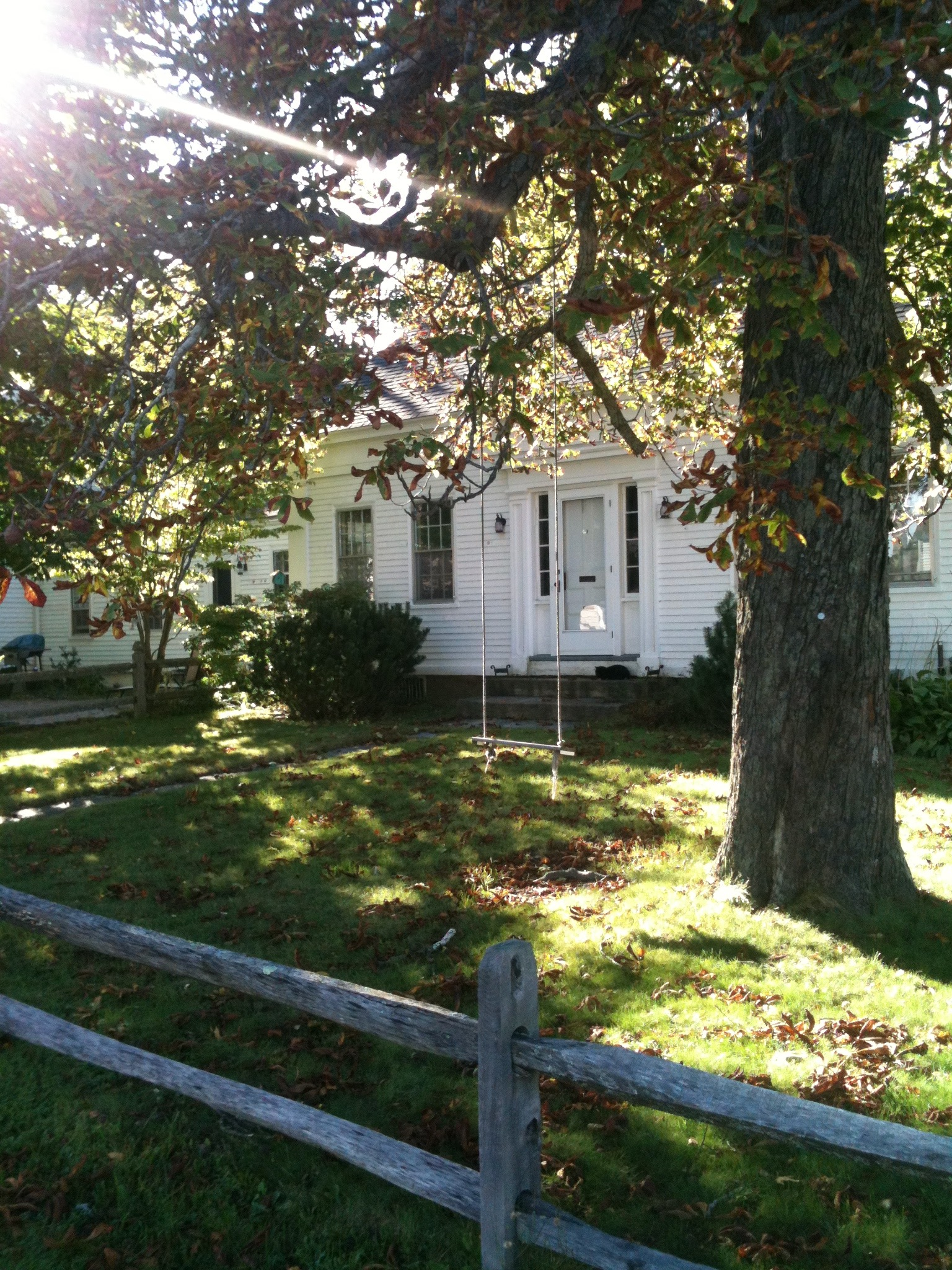 1 South Street, Yarmouth, Maine.